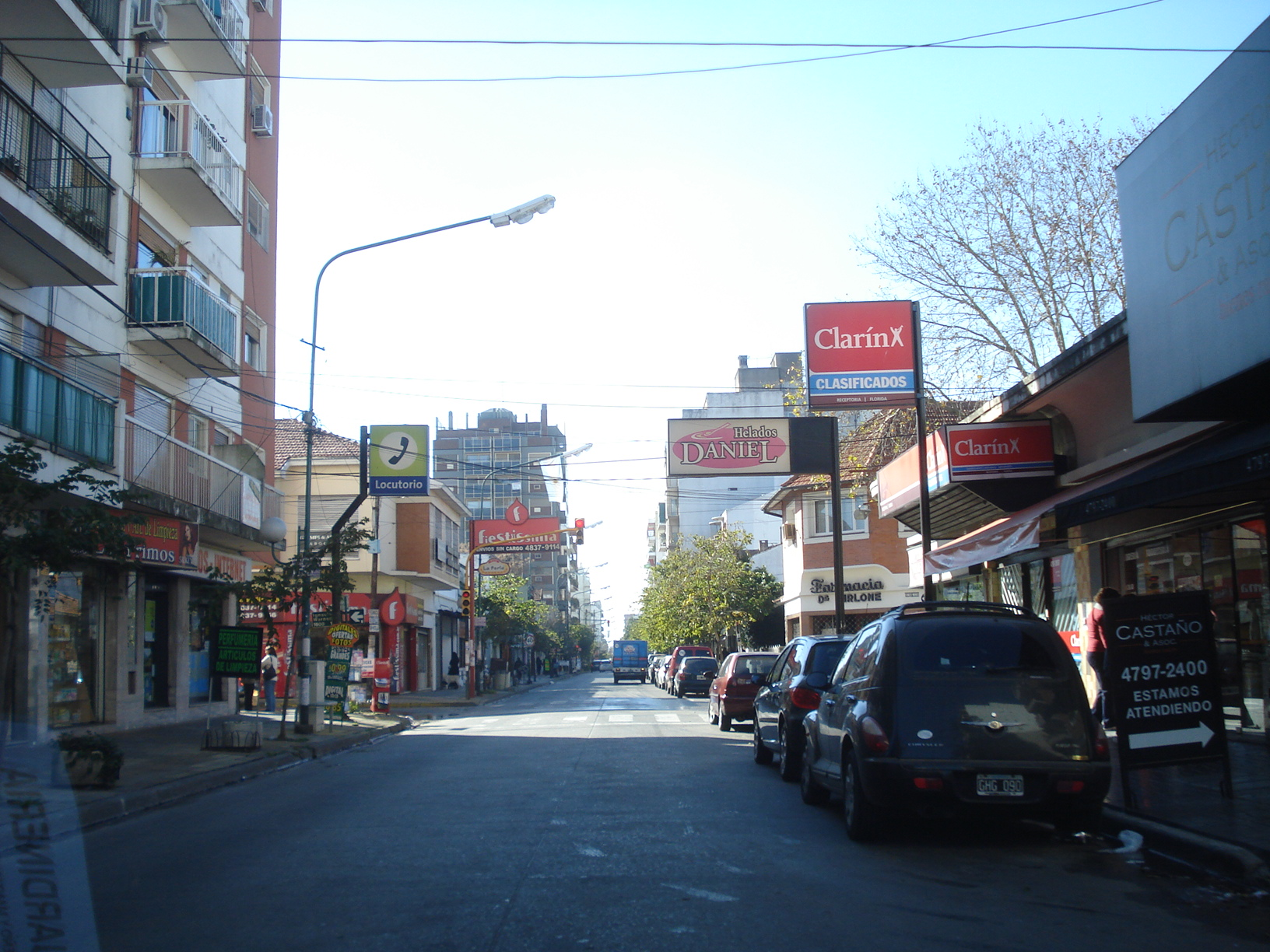 General San Martín Avenue 2700 in Florida, Vicente López, Buenos Aires province, Argentina.